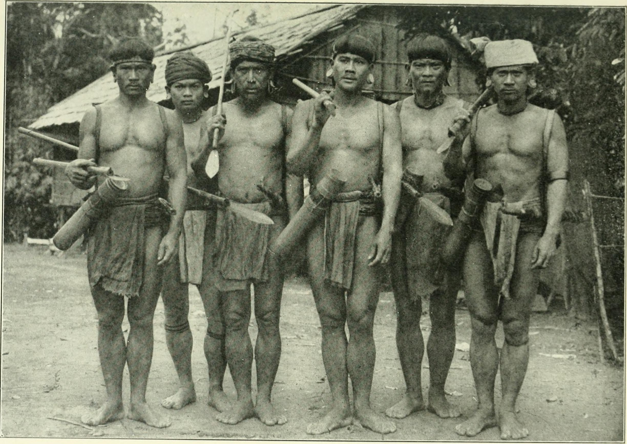 Title: Through Central Borneo; an account of two years' travel in the land of the head-hunters between the years 1913 and 1917 Year: 1920 (1920s) Authors: Lumholtz, Carl, 1851-1922 Subjects: Ethnology -- Borneo Natural history -- Borneo Borneo -- Description and travel Publisher: New York : C. Scribner's sons Text Appearing Before Image: old weather preventedthem from sleeping much. It often happened that theywere without food for three days, when they would drinkwater and smoke tobacco. Trees are climbed in the jump-ing way described before, and without any mechanicalaid. Formerly bathing was not customary. Excrementsare left on the ground and not in the water. Theydont like the colour red, but prefer black. Fire wasmade by flint and iron, which they procured from theSaputans. The hair is not cut nor their teeth. The women weararound the head a ring of cloth inside of which are vari-ous odoriferous leaves and flowers of doubtful apprecia-tion by civilised olfactory senses. A strong-smellingpiece of skin from the civet cat is often attached to thishead ornament, which is also favoured by natives on theMahakam. In regard to ear ornamentation the Penyahbongs arcat least on a par with the most extreme fashions of theDayaks. The men make three slits in the ear; in theupper part a wooden disk is enclosed, in the middle the Text Appearing After Image: x; S i